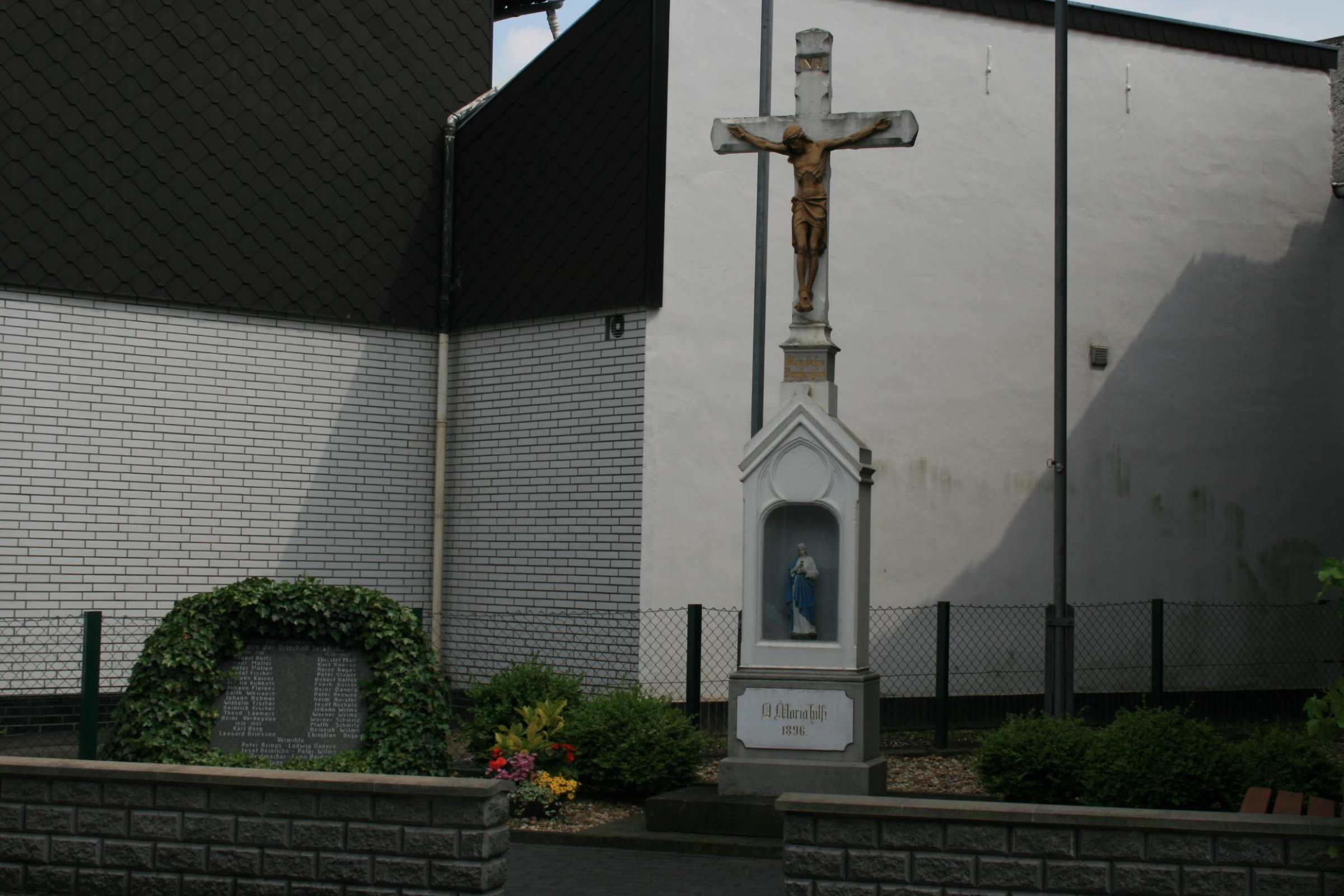 Cultural heritage monument No. T 018 in Mönchengladbach